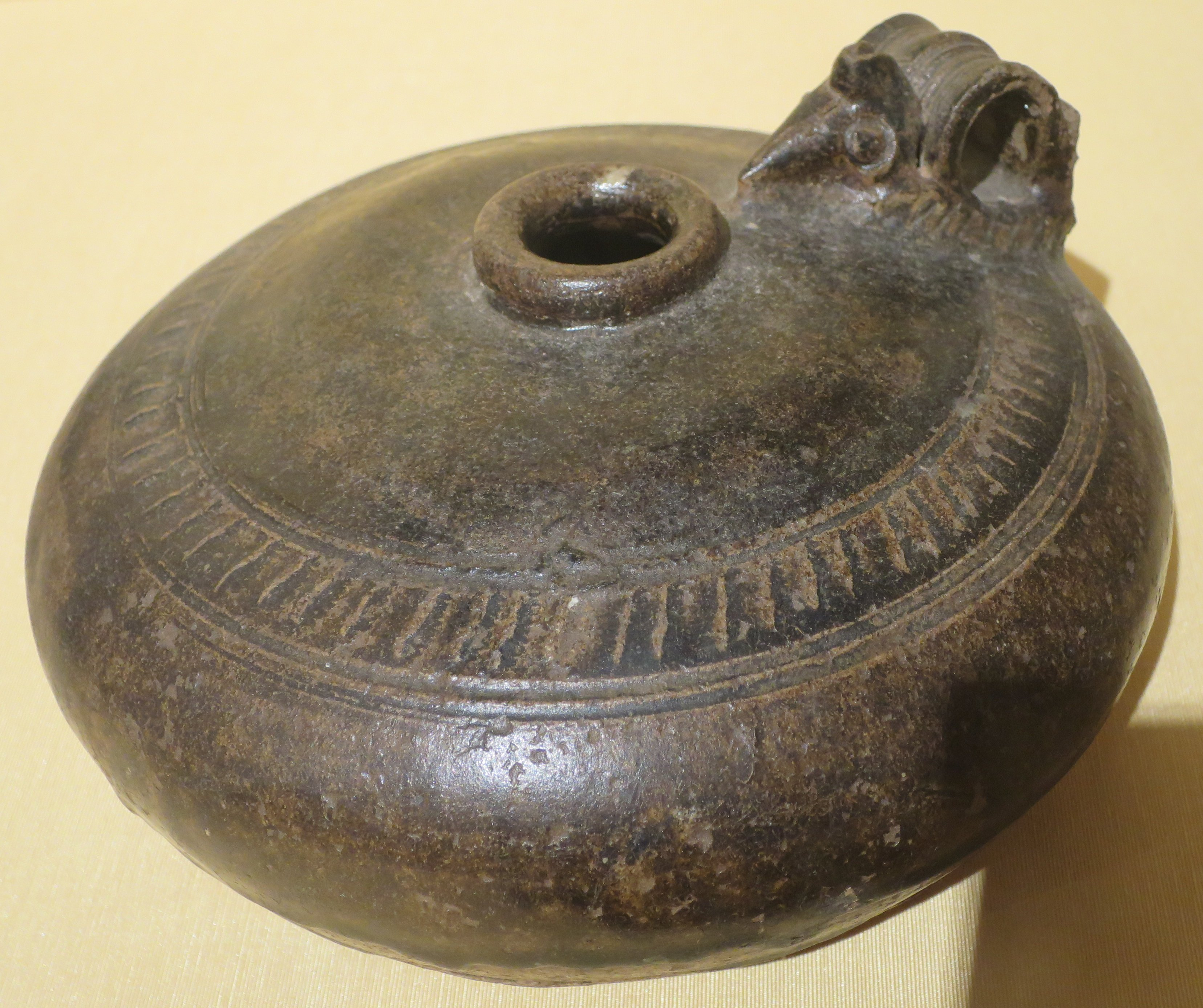 Jar from Cambodia, Angkorian era, 12th-13th century, glazed stoneware, Honolulu Museum of Art accession 6712.1